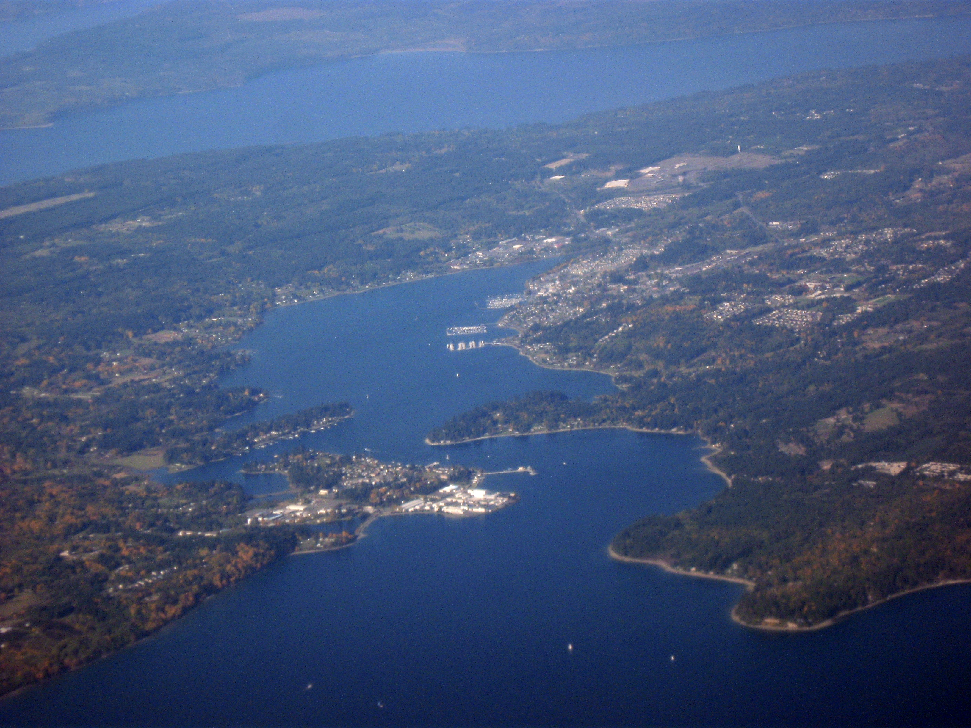 Aerial view of Keyport (just below center) facing northwest from Port Orchard Bay. Other bays visible in this photo are NE Si Ka Bay Liberty Bay (to right of Keyport), Dogfish Bay (small bay behind and left of Keyport), and Liberty Bay (behind Keyport). Taken by myself from a commercial airliner window.